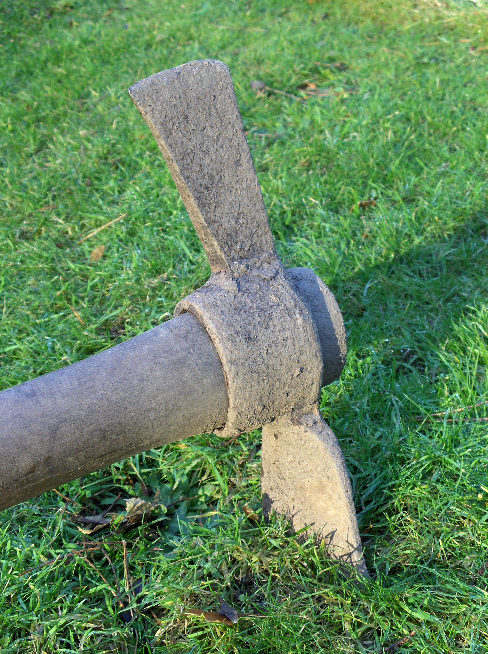 Close-up of the head of a cutter mattock, with the adze side downwards, embedded in a lawn